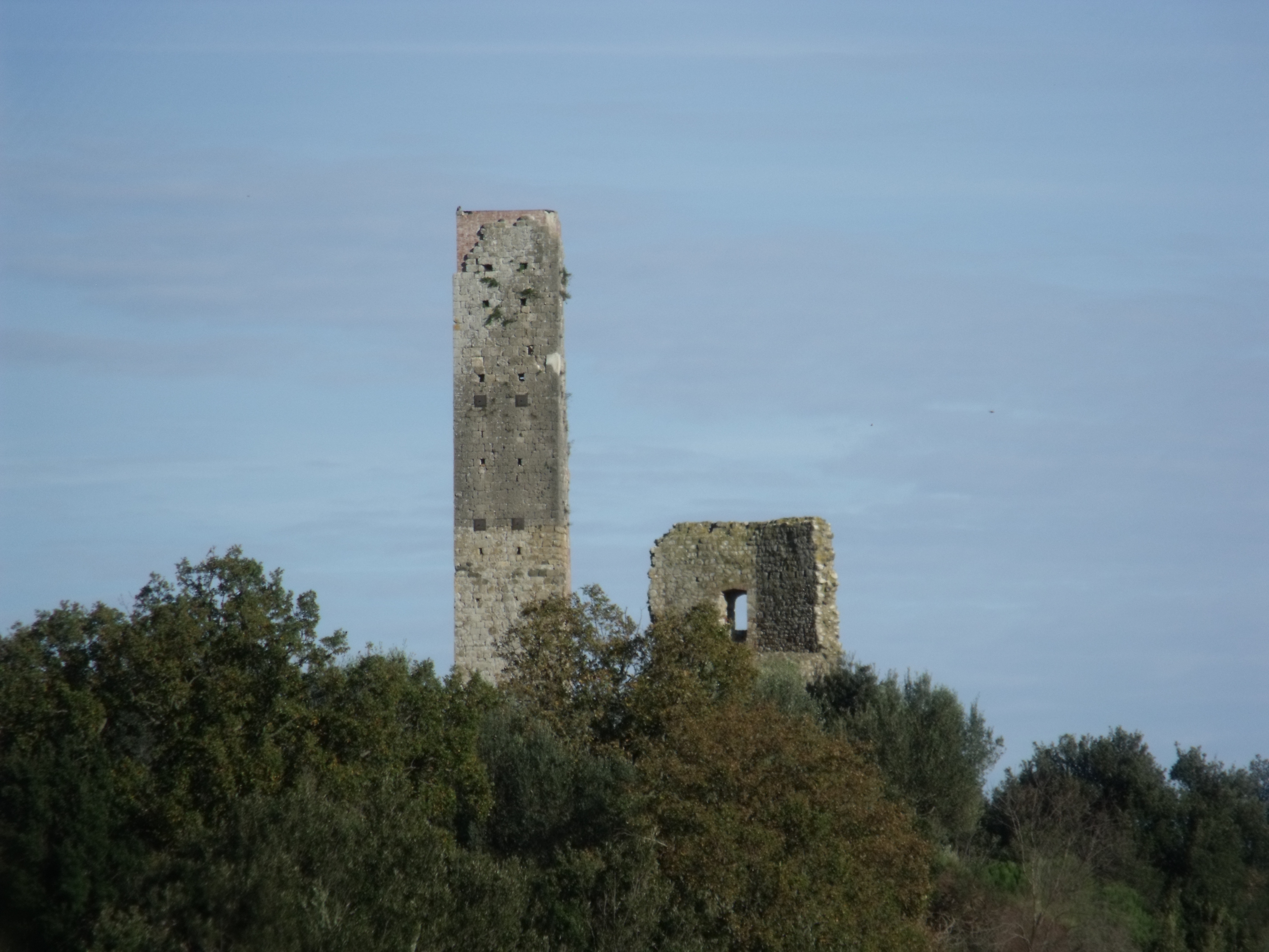 Castello di Crevole, Murlo, Province of Siena, Tuscany, Italy